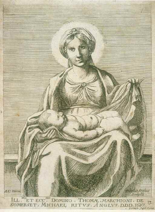 The Virgin and Child: AFTER CARRACCI, Annibale; (Italian; 1560-1609)